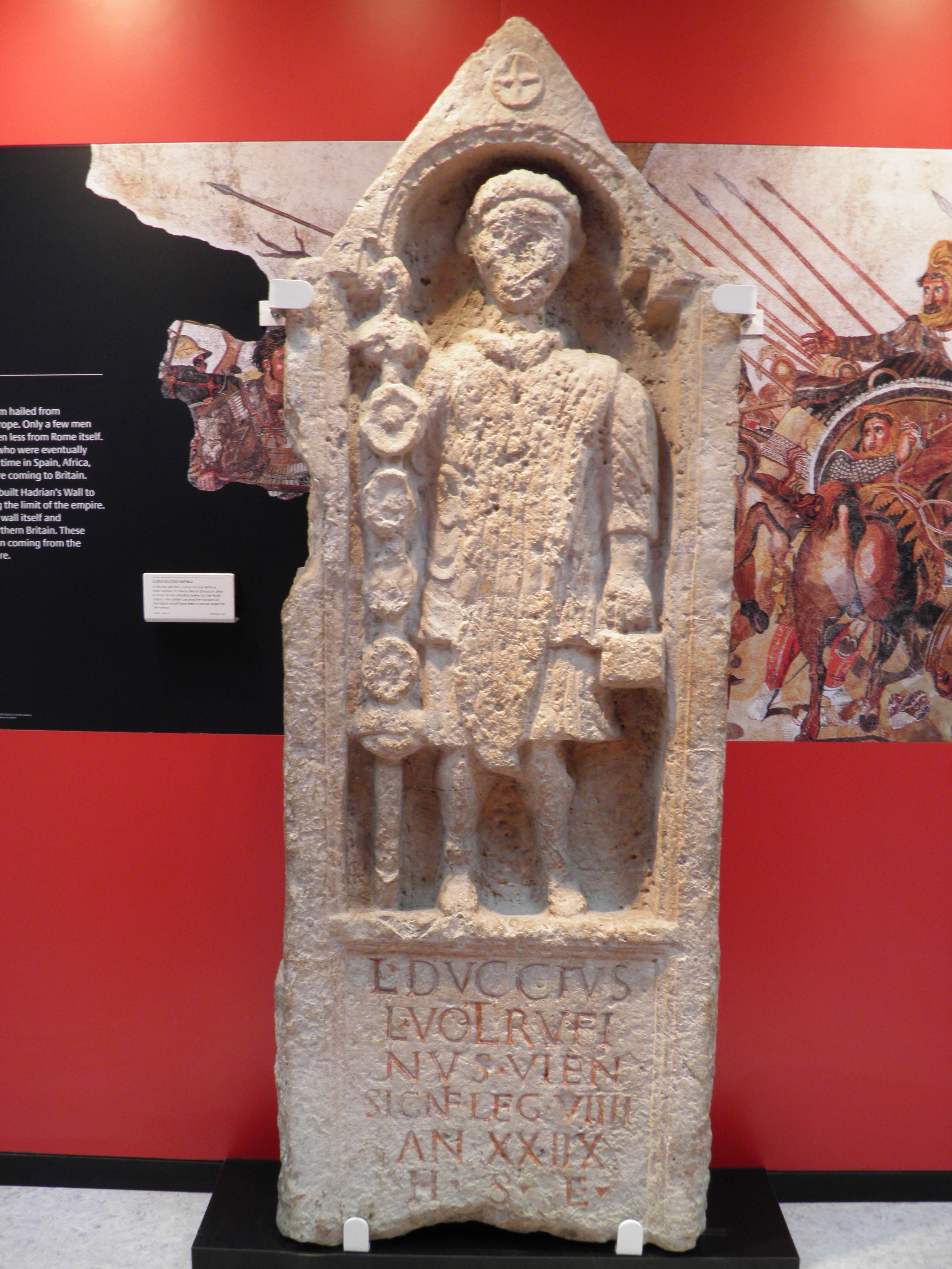 A Roman-era stone slab at the Yorkshire Museum, York, with an inscription below a carved figure of a signifer or standard bearer in the 9th Hispanic Legion.Yorkshire Museum, York (Eboracum)